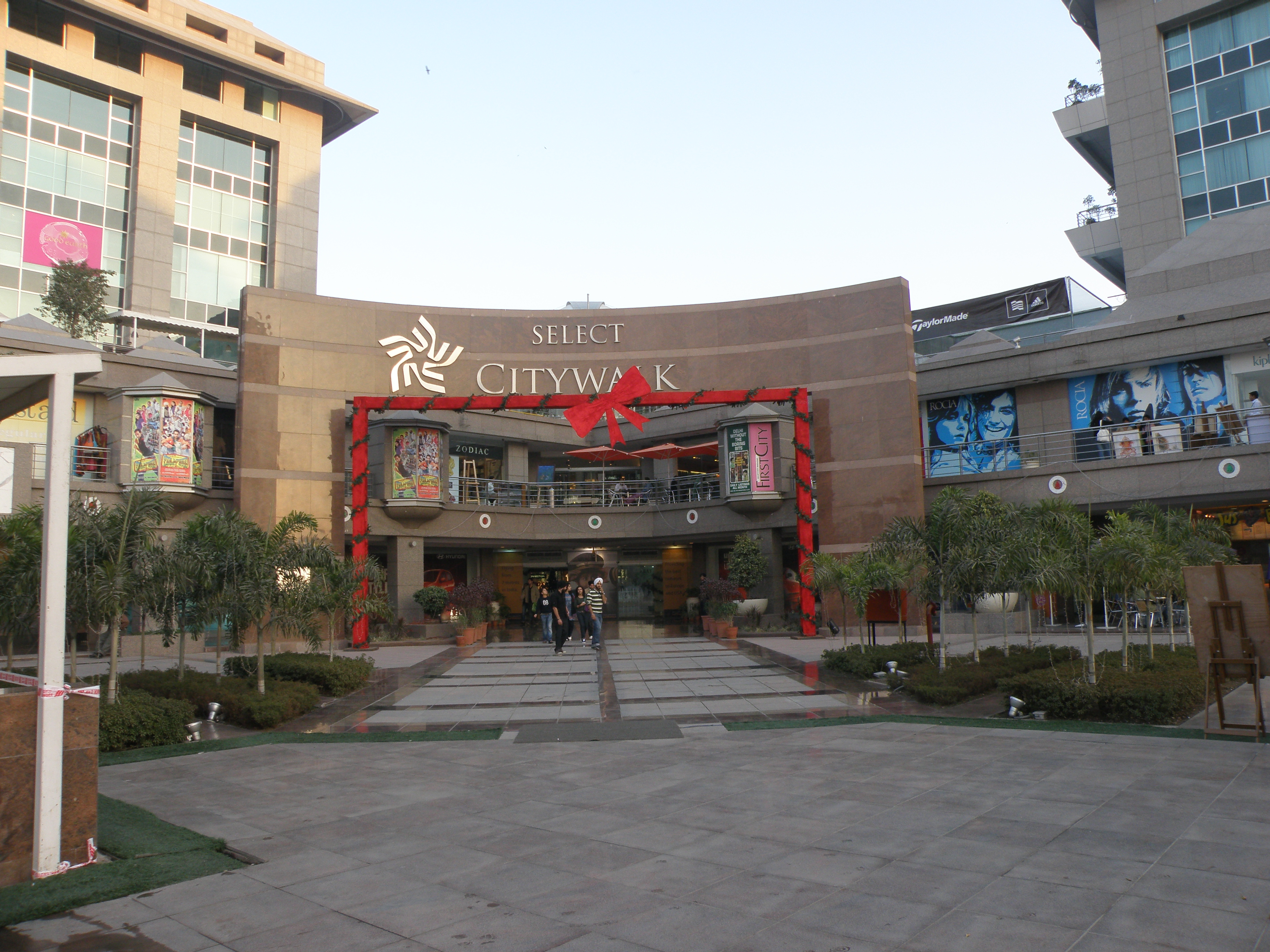 Select City Walk, Saket, New Delhi